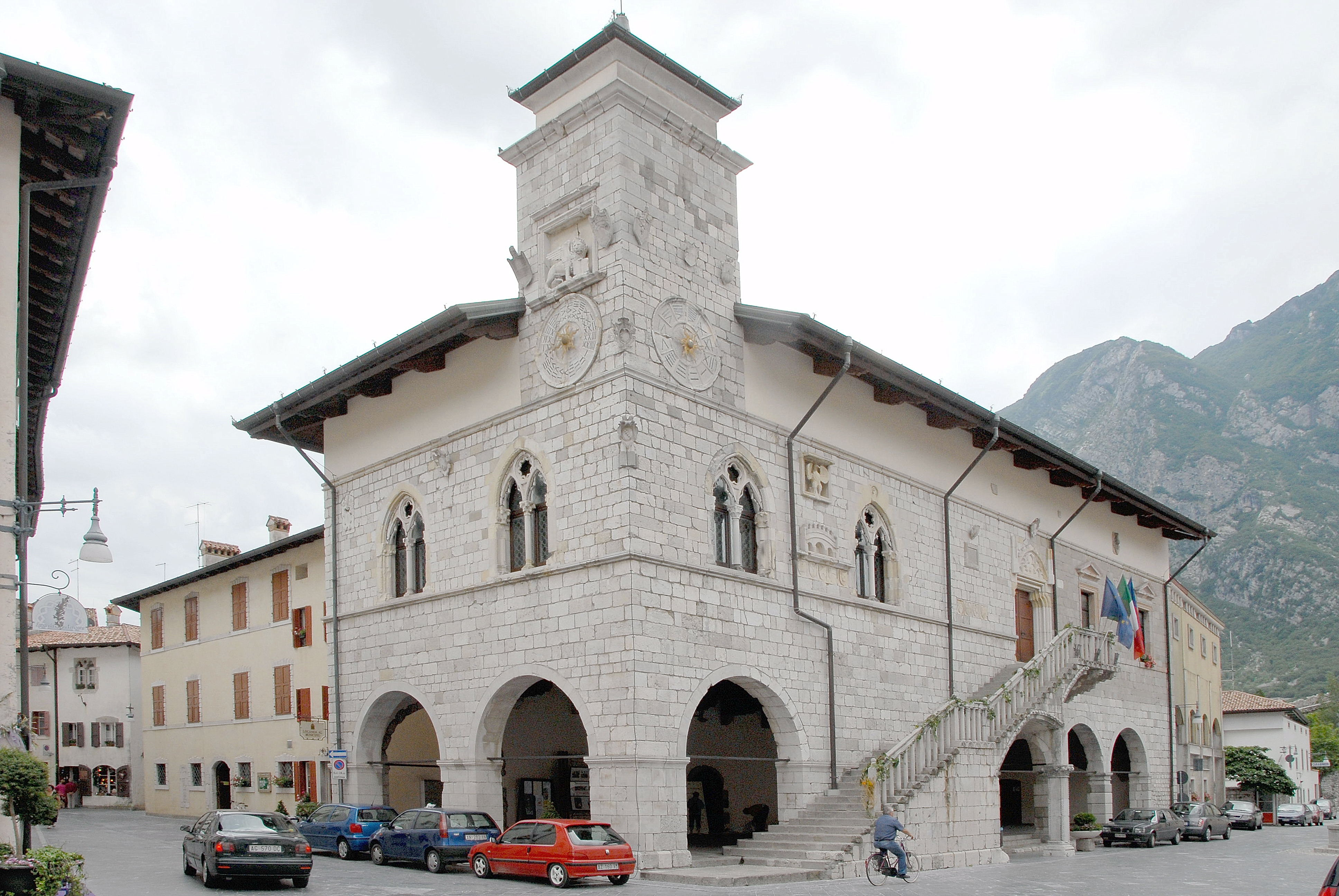 Municipal palace (Palazzo Comunale) of Venzone / Tagliamento valley / Friuli-Venezia Giulia / Italy / EU.